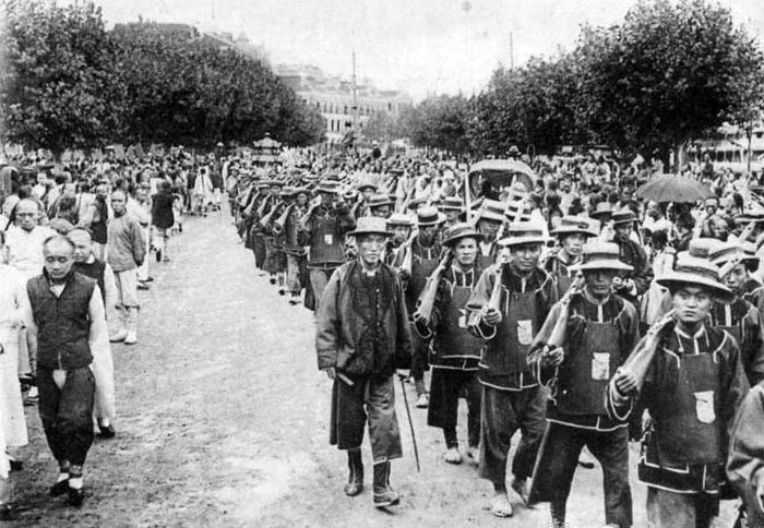 Wuwei Troop taken at 1900. 武卫军